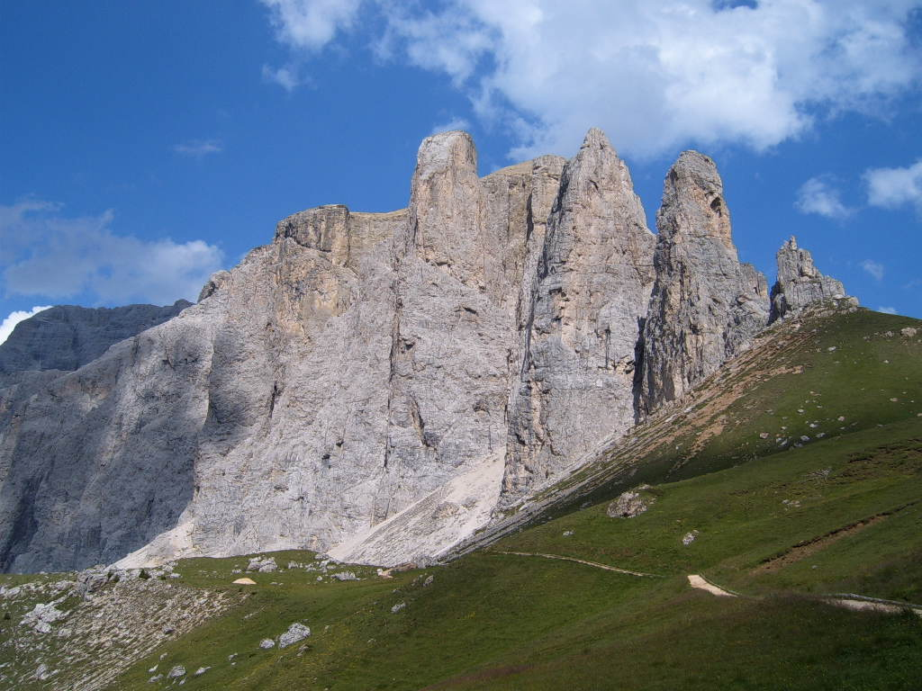 Sella Towers, seen from Passo di Sella, Dolomites, South Tyrol, Italy